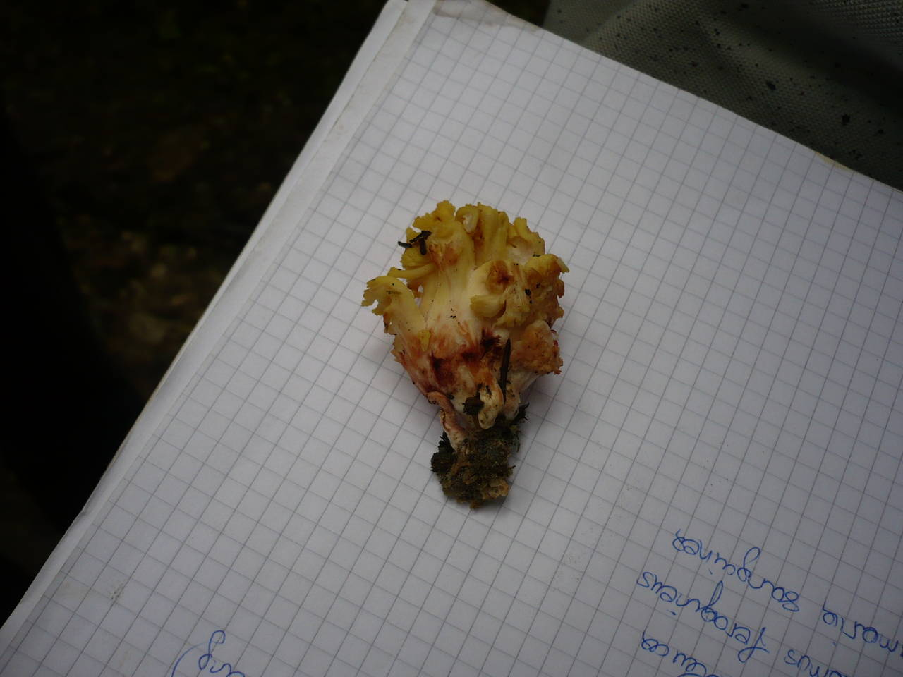 Ramaria sanguinea (Pers.) Quél. Image location: Urwald Neuwald, Donaudörfl, Bezirk Lilienfeld, Lower Austria, Austria [admin – Sat Aug 14 02:07:14 +0000 2010]: Changed location name from ‘Urwald Neuwald,Donaudörfl,Bezirk Lilienfeld,Lower Austria,Austria’ to ‘Urwald Neuwald, Donaudörfl, Bezirk Lilienfeld, Lower Austria, Austria’ Recognized by sight Used references Based on microscopic features For more information about this, see the observation page at Mushroom Observer.